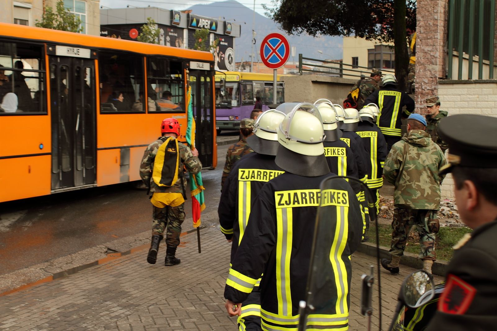 Albanian Firefighters in Tirana